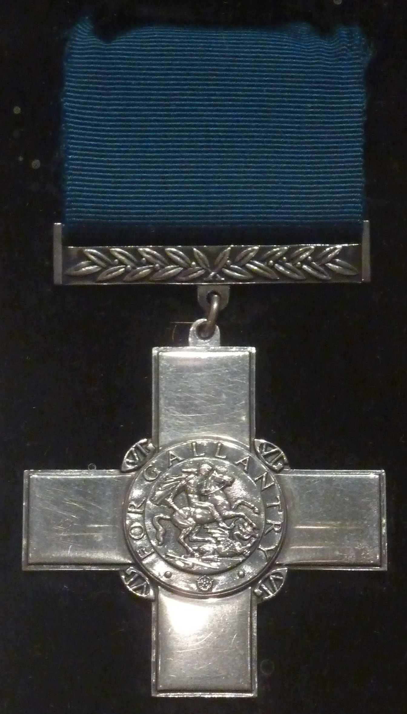 George Cross granted to the Island of Malta in 1942